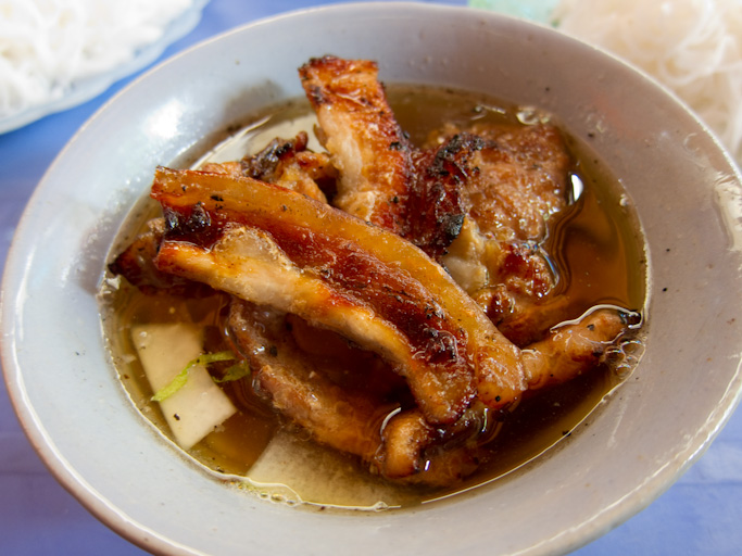 Grilled meat from bún chả.